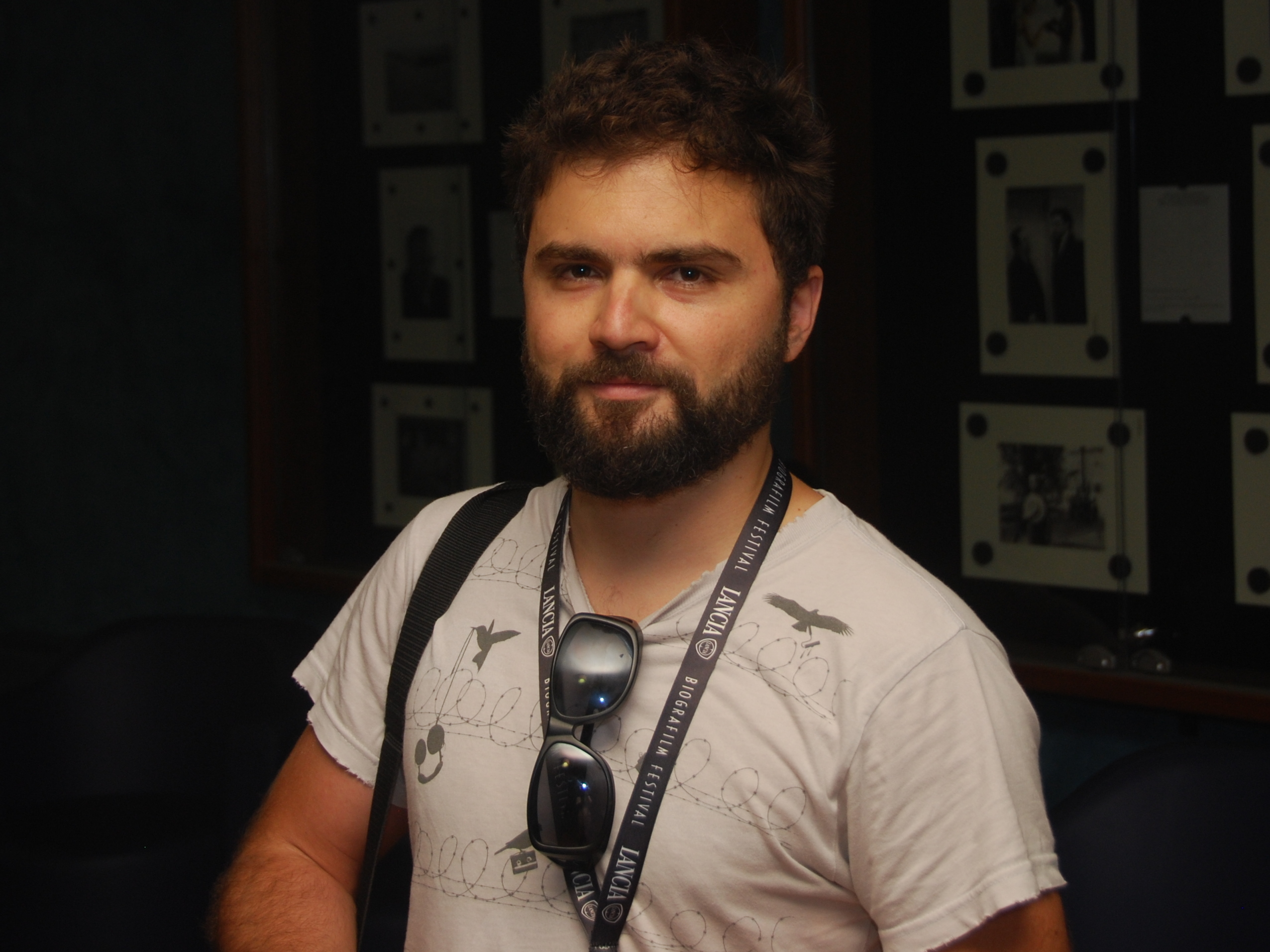 Spiros Stathoulopoulos